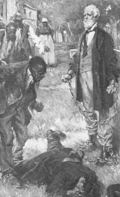 illustration from The Clansman, by Thomas Dixon, 1905 cropped from Image:The-clansman.jpg